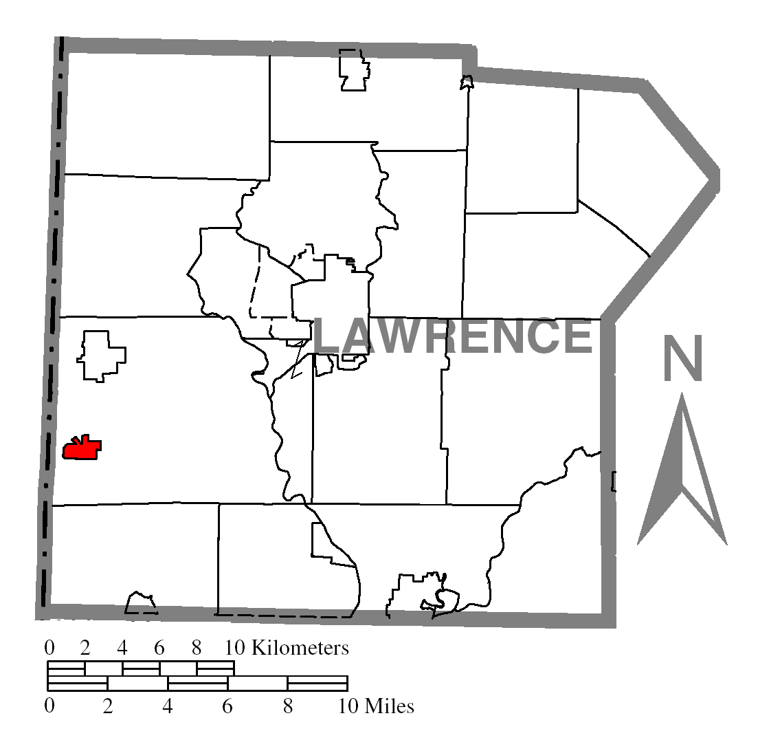 Map of Lawrence County higlighting S.N.P.J..